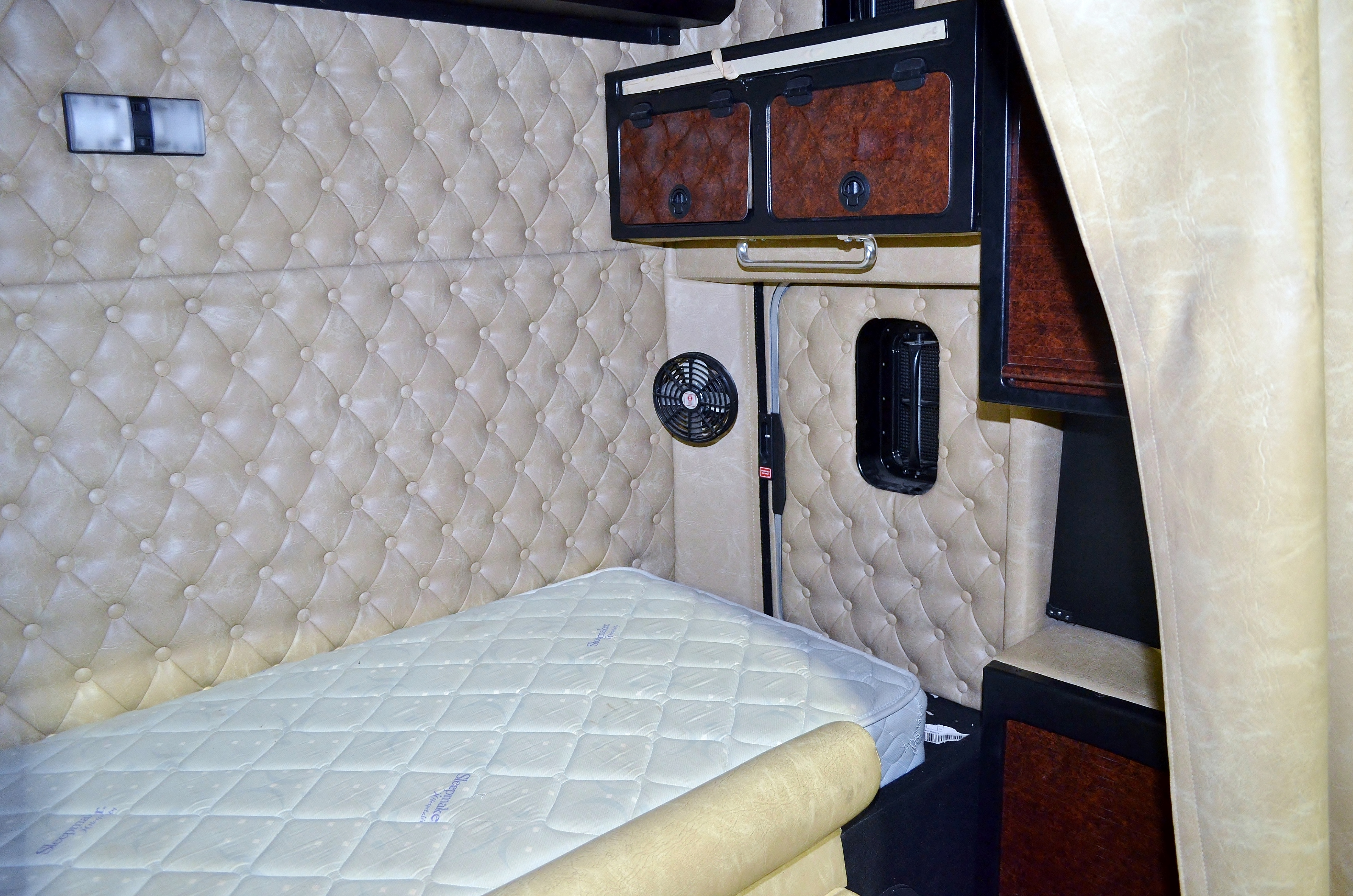 View of the sleeper area of the driving cab of a Kenworth semi-trailer tractor, on display at the Kenworth Dealer Hall of Fame, which is part of the National Road Transport Hall of Fame, Alice Springs, NT, Australia.